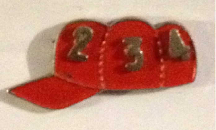 Original morale pin issued to Operation Red Hat participants in 1971. Also called the "downrange" pin